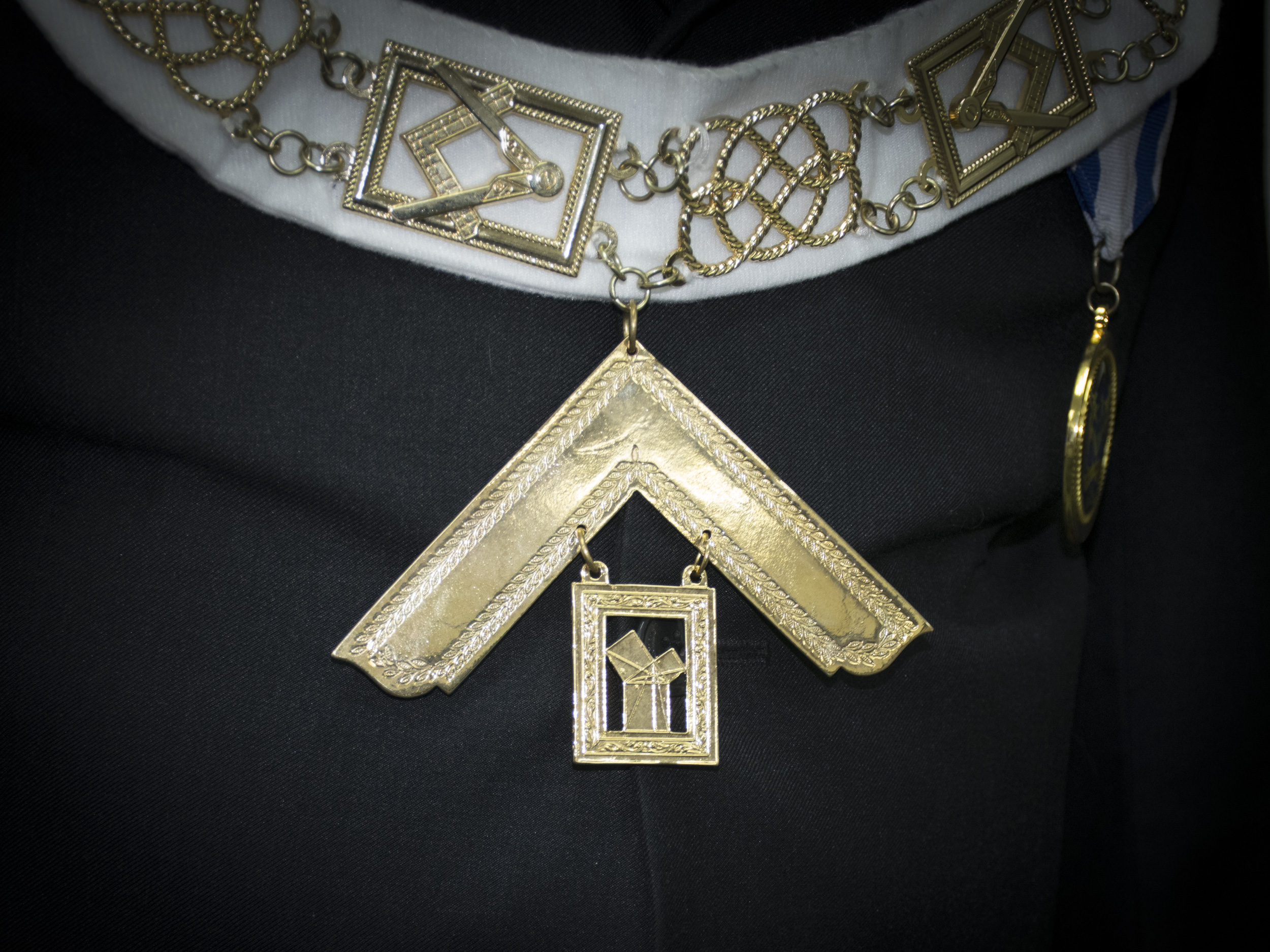 Past Master Emblem: Square, with the 47th problem of Euclid